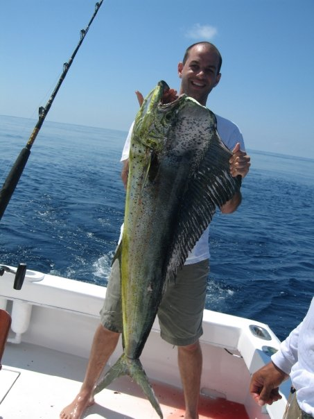 mahi mahi